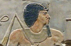 A relief of pharaoh Amenemhet I before Egypt's deities, from his funerary temple at El-Lisht. Amenemhet I was the founder of the 12th dynasty of Egypt. The relief is now located in the Metropolitan Museum of New York -- Cropped version